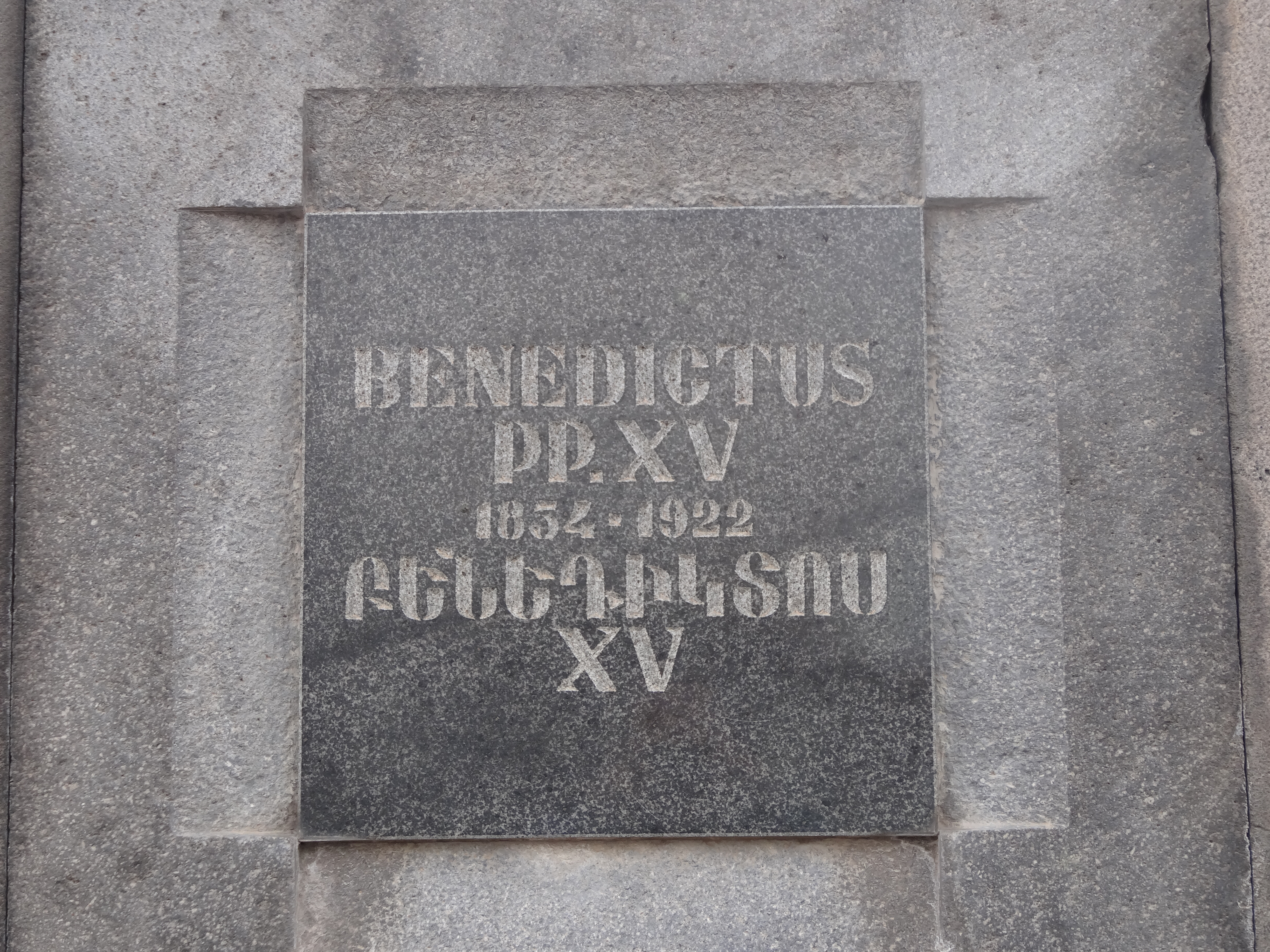 Plaque at Tsitsernakaberd for Benedictus PP. XV (Yerevan, Armenia)